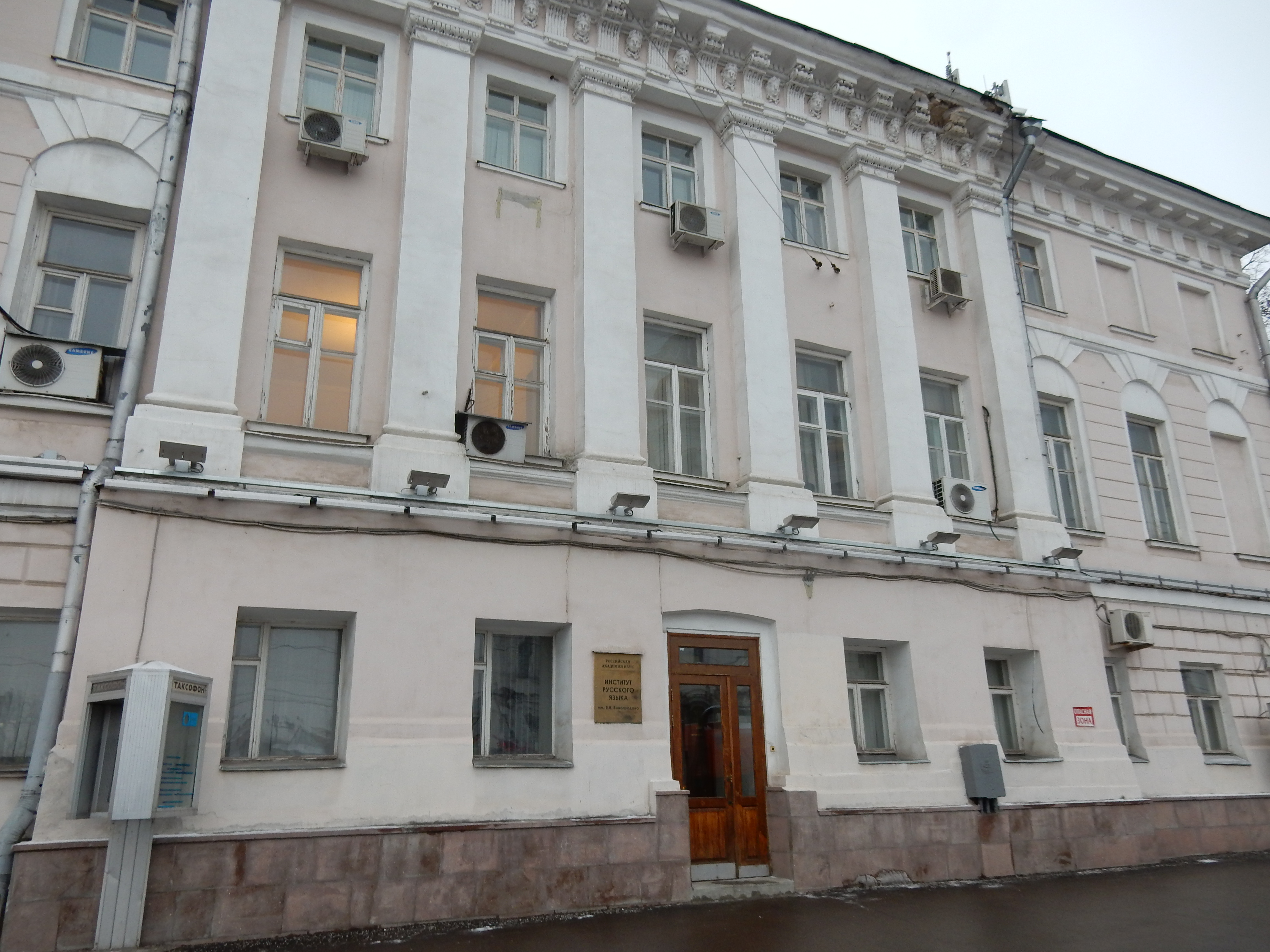 Moscow, Volkhonka Street 18/2. Institute of Russian Language. December 2014.